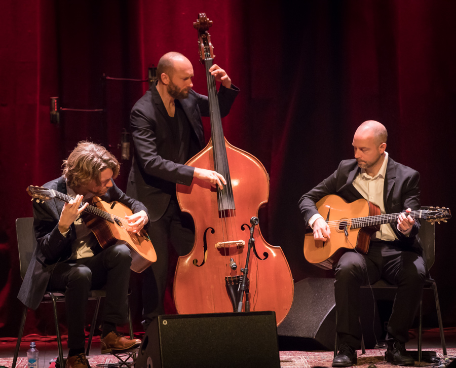 Acoustic Connection at Cosmopolite. The concert was part of Djangofestivalen 2017 and took place on 20. January 2017 in Oslo. Acoustic Connection is a collaboration project between Gustav Lundgren Trio and Antoine Boyer.Lineup:Gustav Lundgren (guitar)Andreas Unge (double bass)Martin Widlund (guitar)Antoine Boyer (guitar)